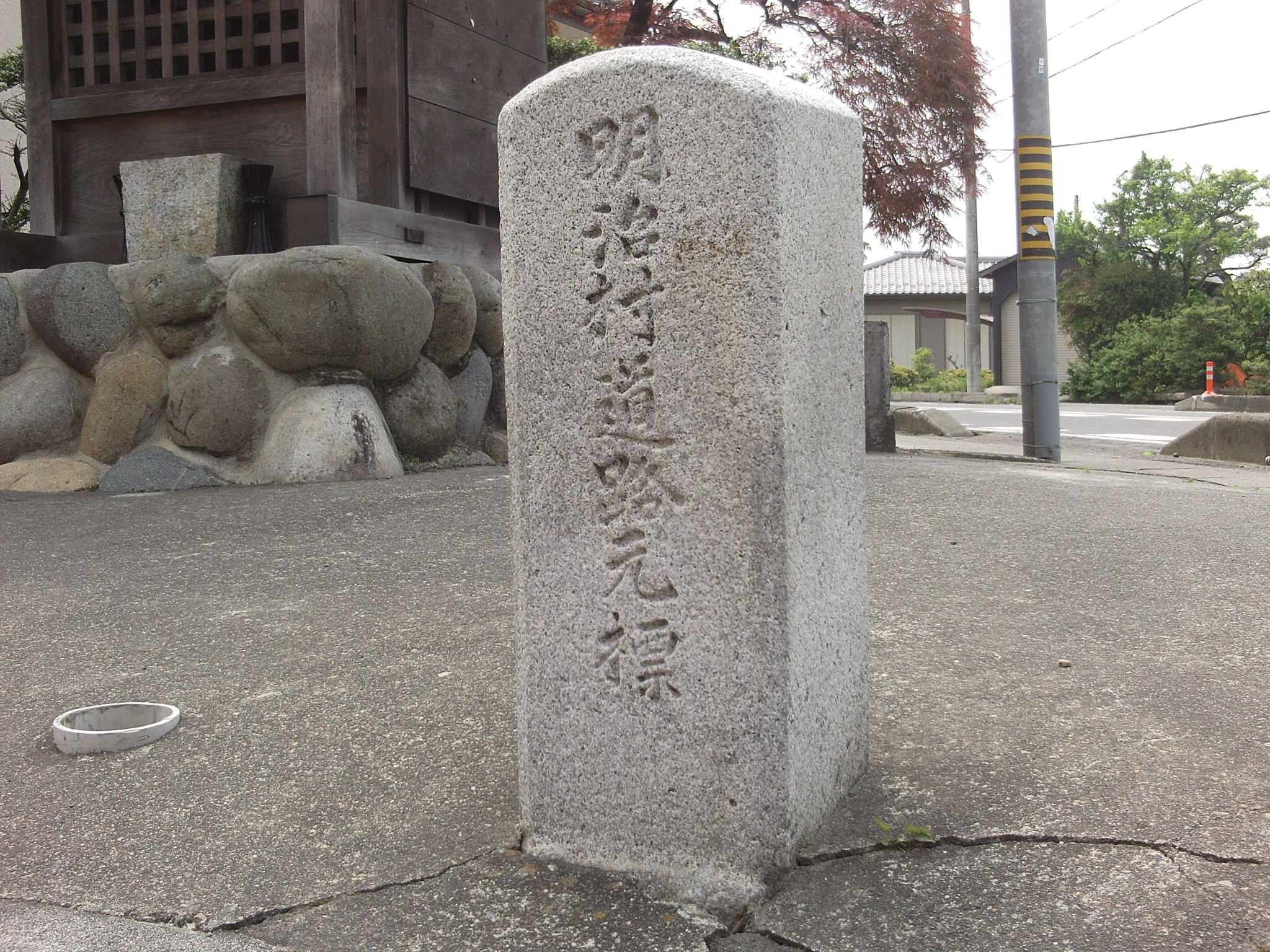 Kilometre zero of Meiji village. (Meiji village, Nakashima-gun, Aichi.)